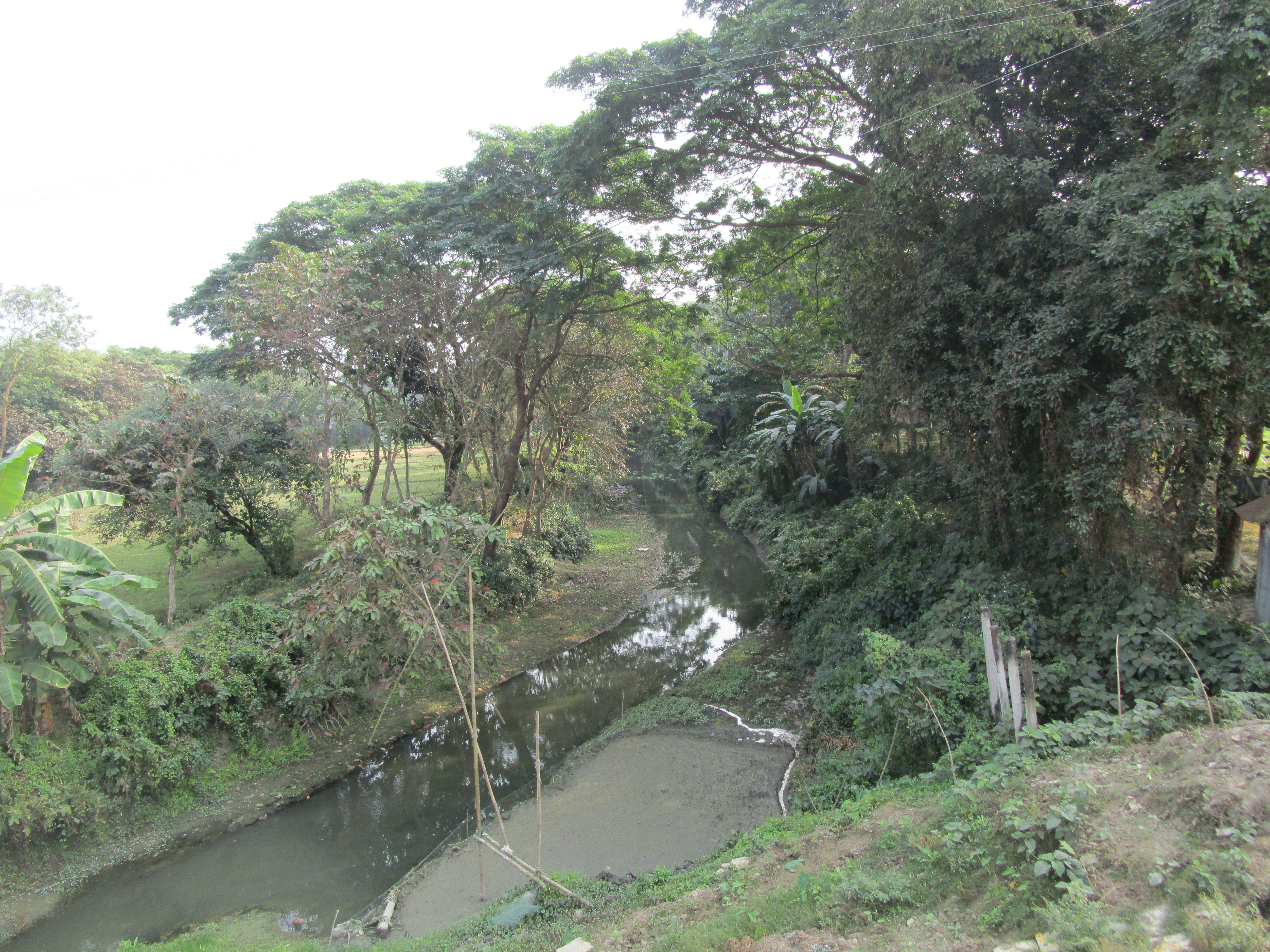 Barera Riverview from the bridge at Dhaka-Mymensingh Highway near Beltoli, Mymensingh Sadar Upazila.